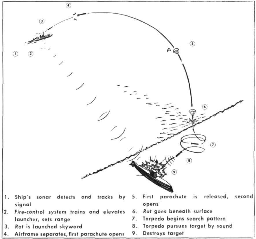 Diagram showing the deployment of the new U.S. Navy Rocket Assisted Torpedo (RAT) under development by the Naval Ordnance Test Station at China Lake, California (USA). The system became operational in 1960, redesignated as RUR-5 ASROC (Anti-Submarine ROCket).